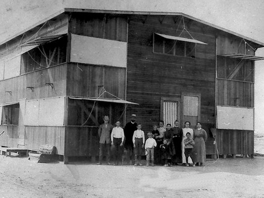 This is a picture of Ora Rush Weed and his family in front of their house taken in 1912.